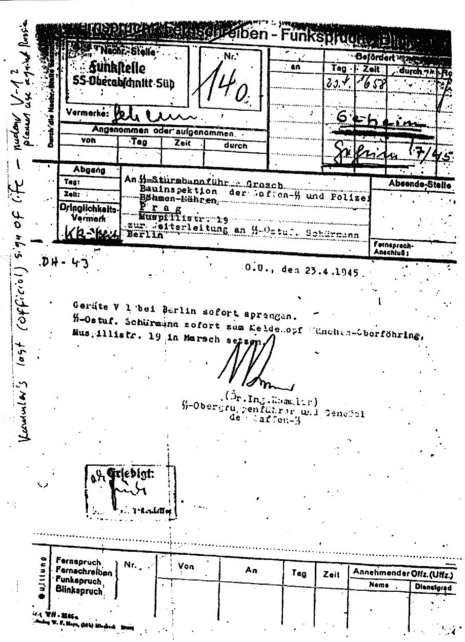 This document is really the last trace of Dr. Hans Kammler.